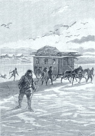 An illustration from Jules Verne's novel "César Cascabel" (1890) drawn by George Roux.